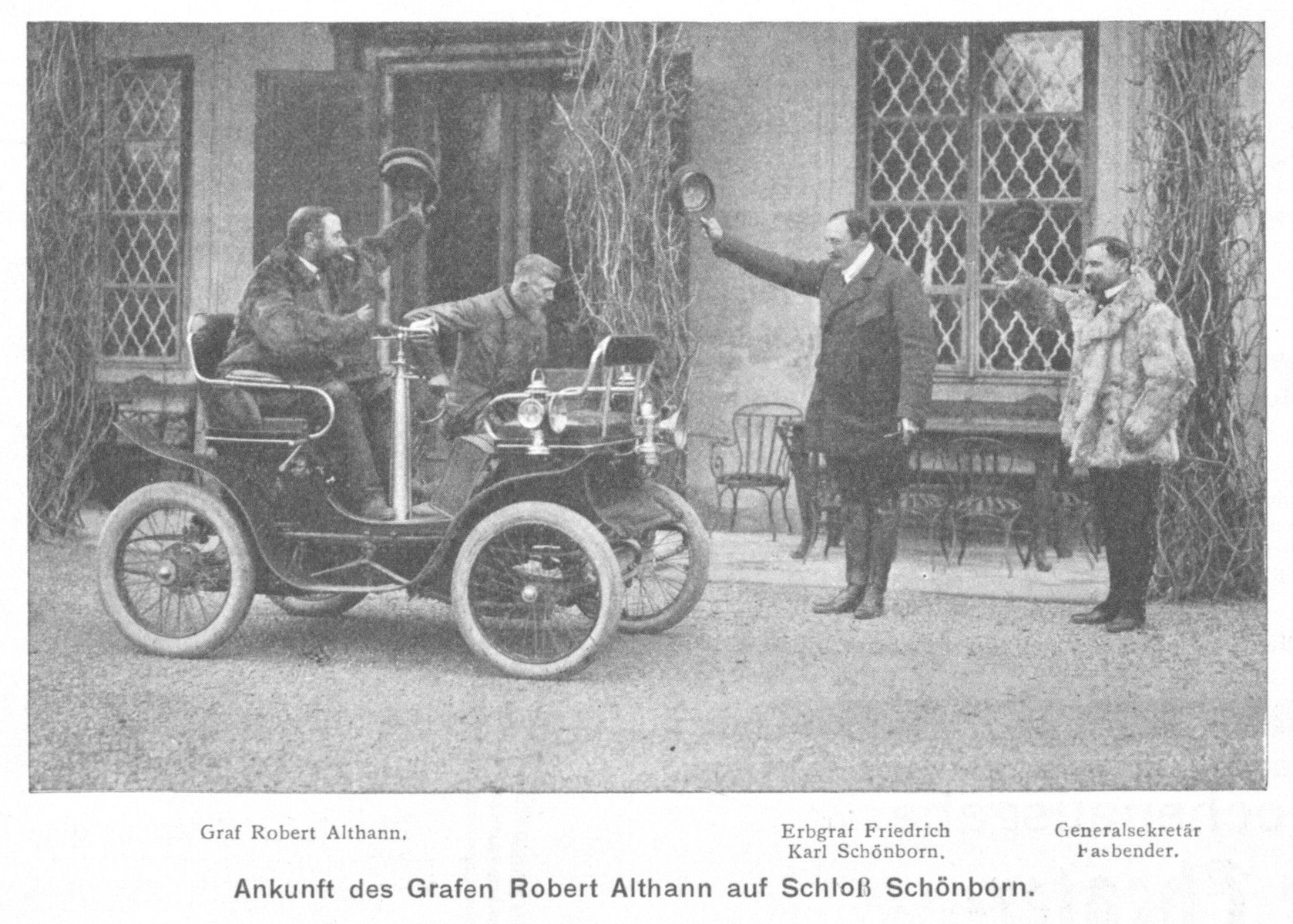 Robert von Althann (1853-1919) arriving in his car at Schloss Heusenstamm (Schönborn Castle). He is greeted by Friedrich Carl von Schönborn-Wiesentheid (1847-1913) and general secretary Fasbender.